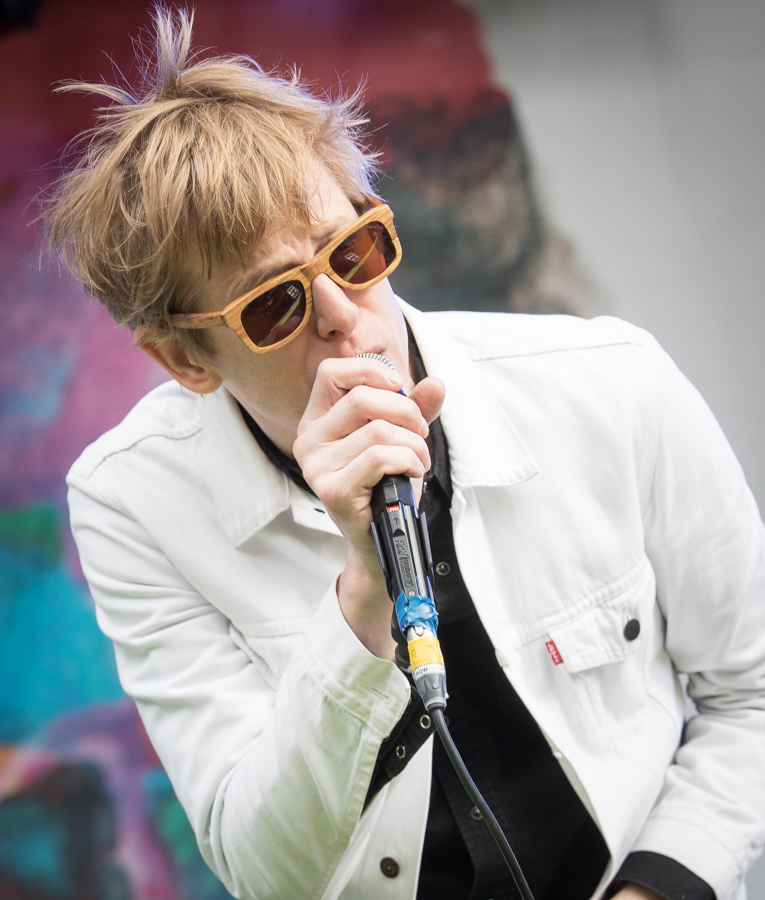 Spoon at the main stage in the Vigeland Park. The concert was part of Piknik i Parken and took place on 22. June 2017 in Oslo. Lineup: Britt Daniel (guitar and vocal), Jim Eno (drums), Rob Pope (bass guitar), Alex Fischel (keyboard) and Eric Harvey (guitar).